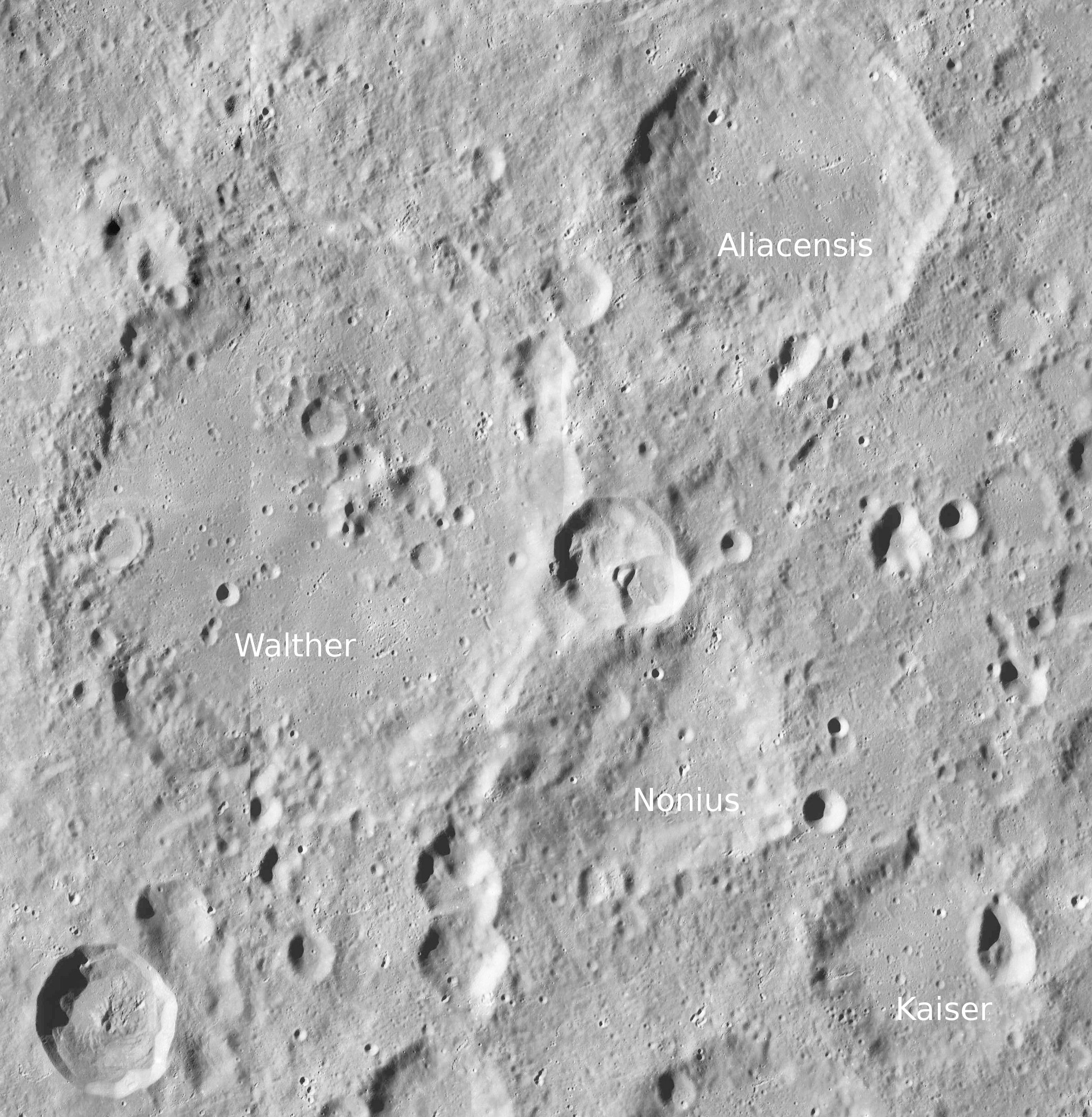 Craters Walther, Nonius, Aliacensis and Kaiser (detail of LRO - WAC global moon mosaic; Mercator projection)